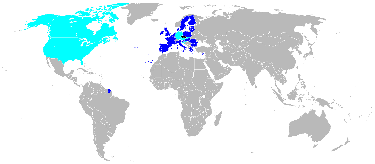 Map of the world showing the countries that harbor people who speak the Czech language. Black - The country that adopts the Czech as the official language (Czech Republic). Light Blue - Countries with minorities who speak Czech (United States, Canada, Austria, Germany, Croatia and Slovakia). Blue - The European Union have the Czech as one of its official languages.